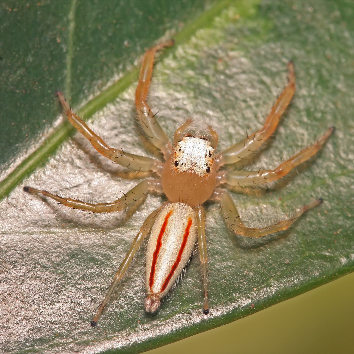 Female Telamonia dimidiata in the Lalbagh Botanical gardens, Bangalore, India